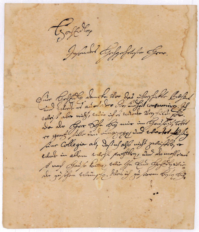 Autograph letter from German philosopher Christian Wolff to “Monsieur Reyher Apothecaire à Thoren”, dated (date not visible on this image) “Halle, 9. V. 1744”.